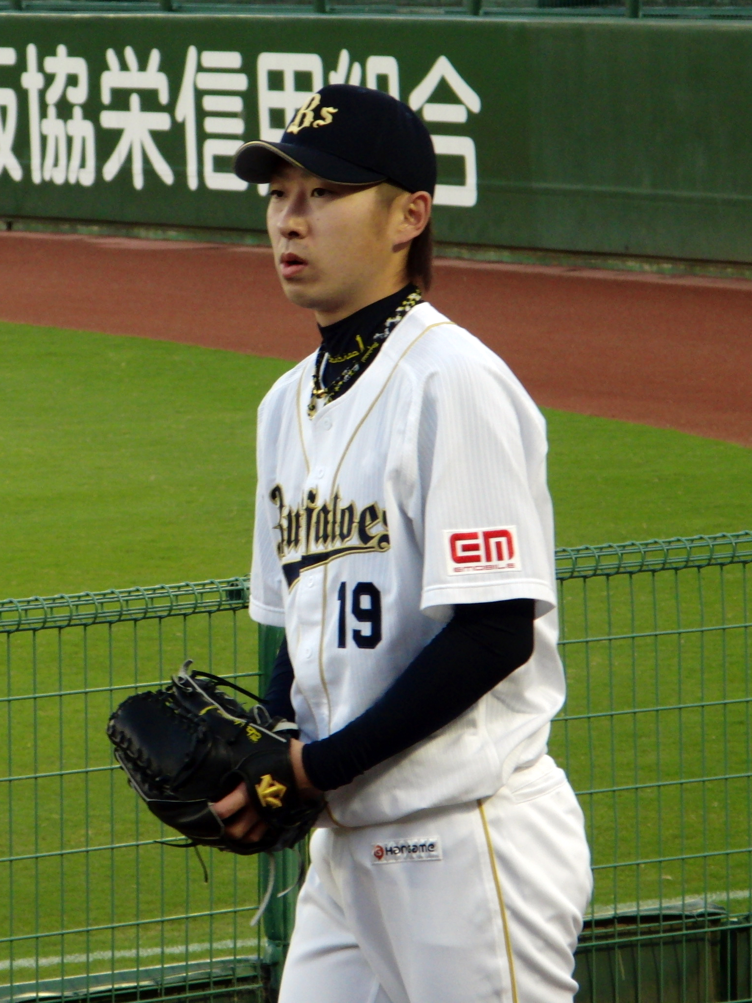 Chihiro Kaneko, pitcher of the Orix Buffaloes, at Kobe Sports Park Baseball Stadium.